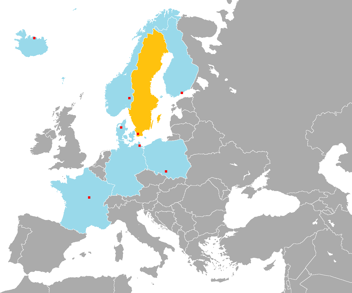 a map of lunds friend towns